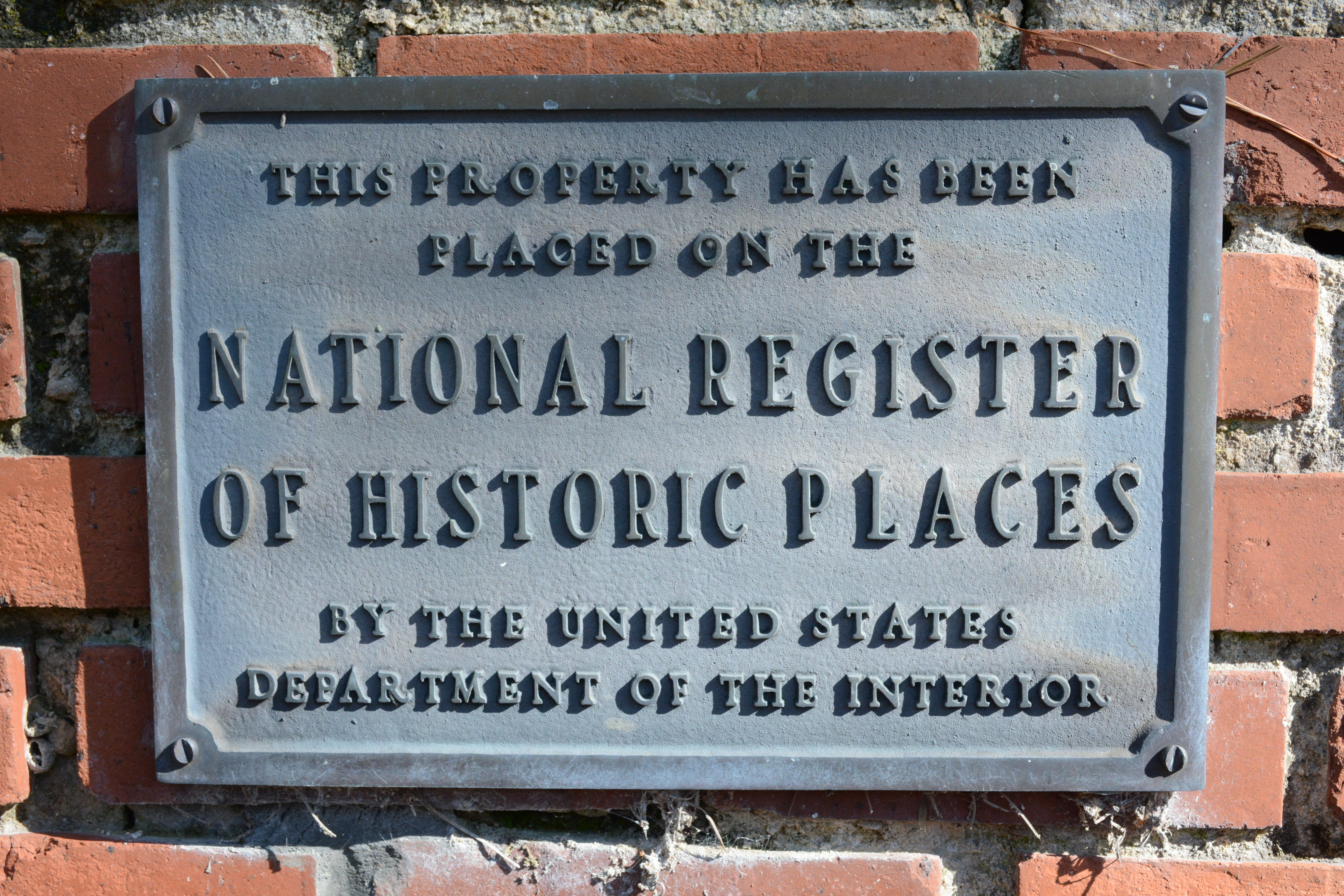 McCranie Turpentine Still historical marker, Willacoochee, Georgia, USA